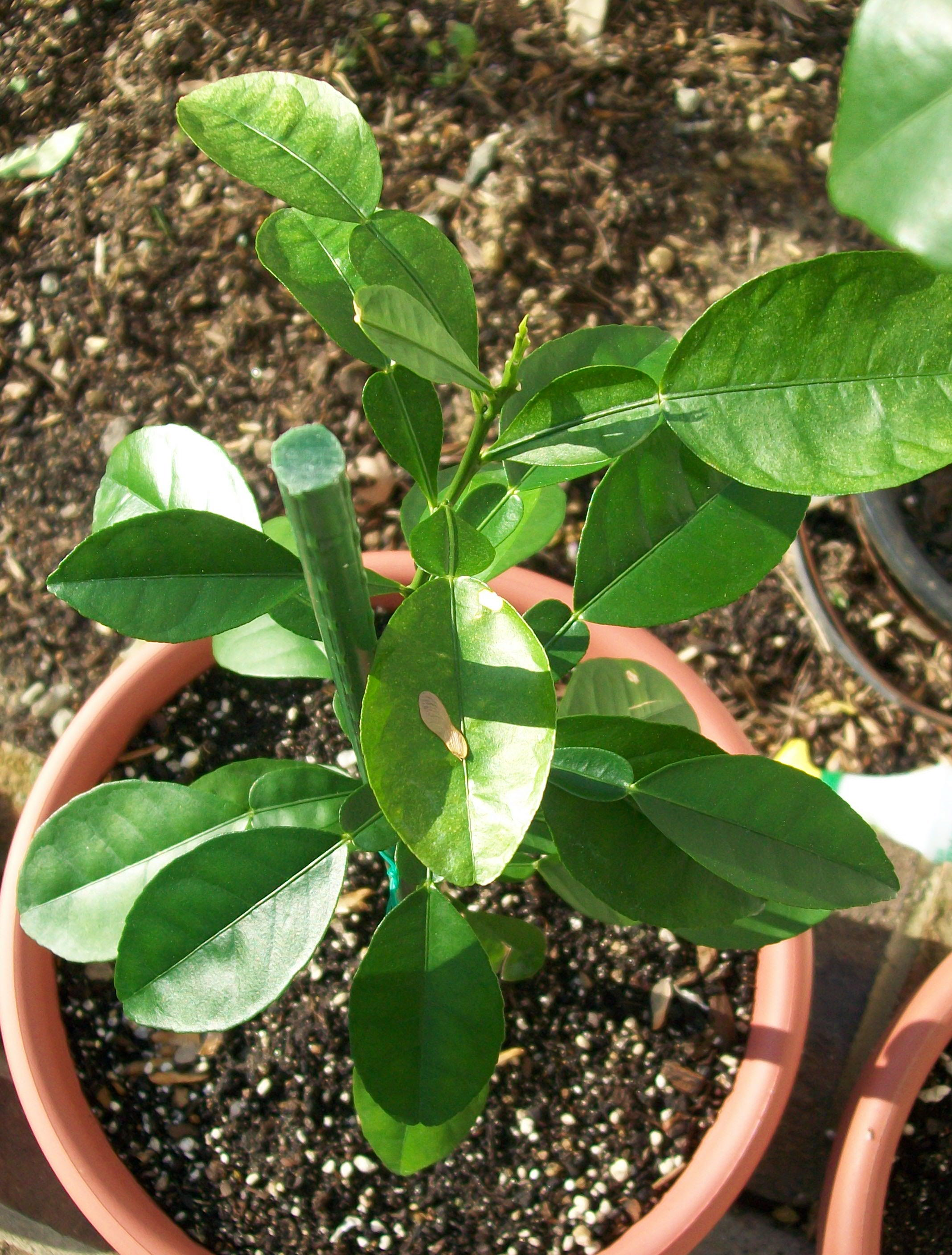 Pomelo, 1 year old seedling, Chapel Hill, North Carolina.